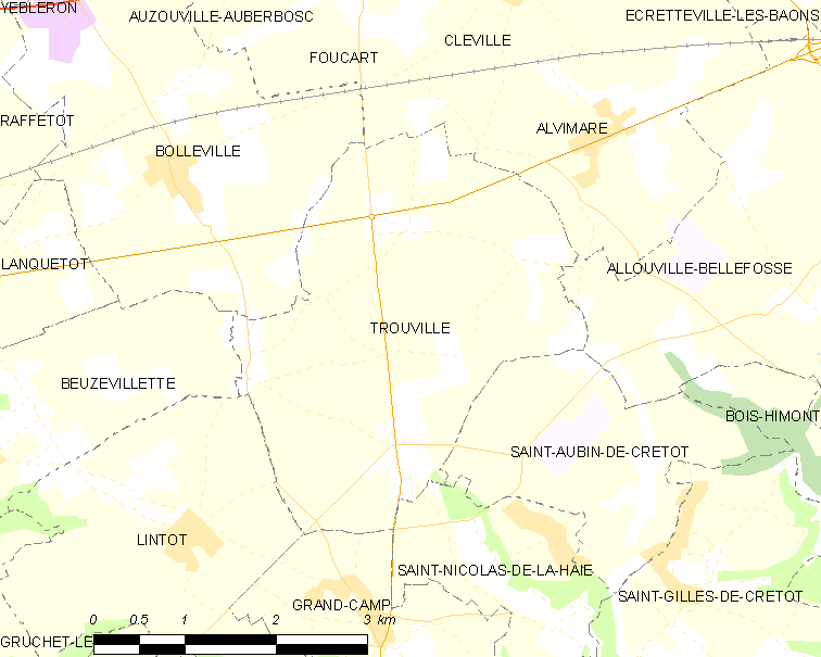 Map of French municipality Trouville